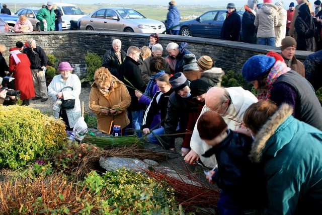 Making St Brigids Crosses at St Brigids Well